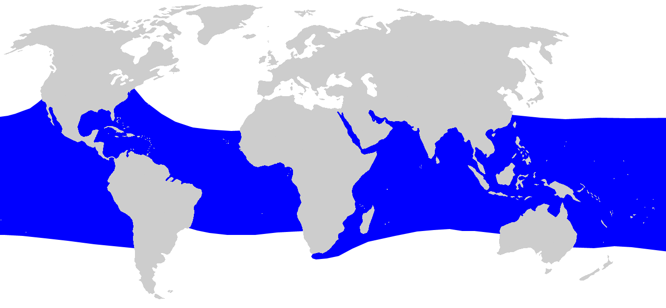 Distribution map for Rhincodon typus